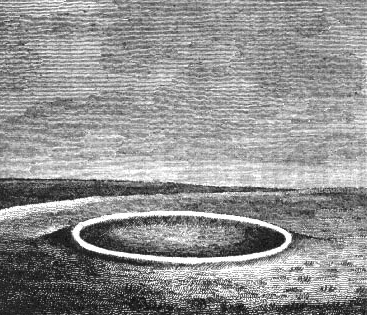 Pond barrow from an engraving of barrow types, from Colt Hoare's introduction to "The Ancient History of Wiltshire".